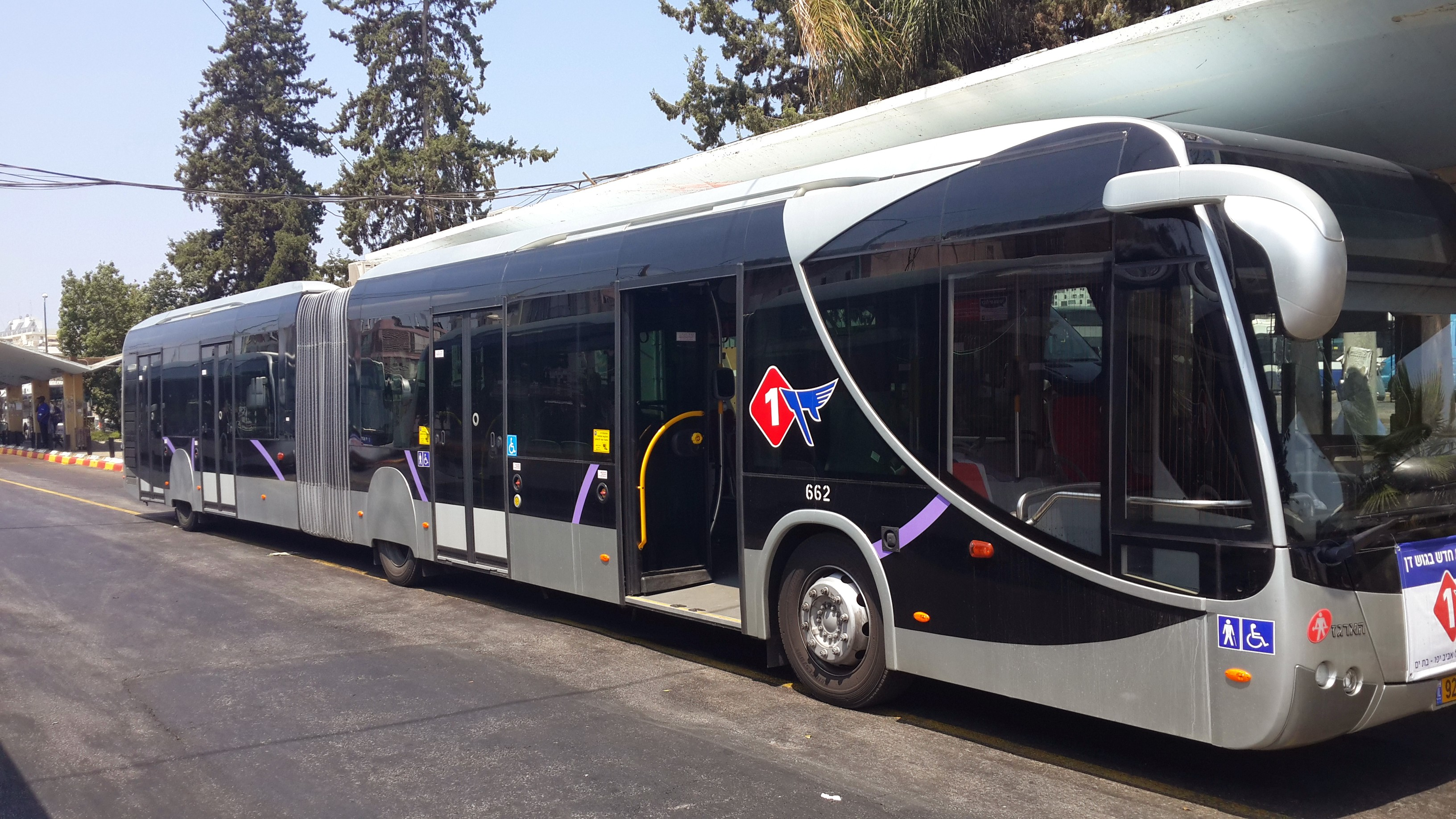 Haargaz Urbanit bus in Central Bus Station of Petah Tikva